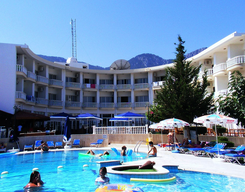 Hotel Sempati in Lapta or Lapithos, Northern Cyprus.